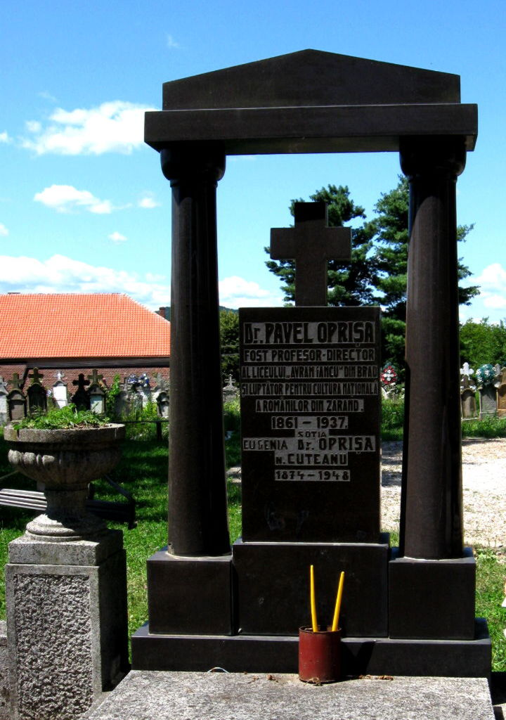 Tomb of Pavel Oprisa, Țebea, Hunedoara